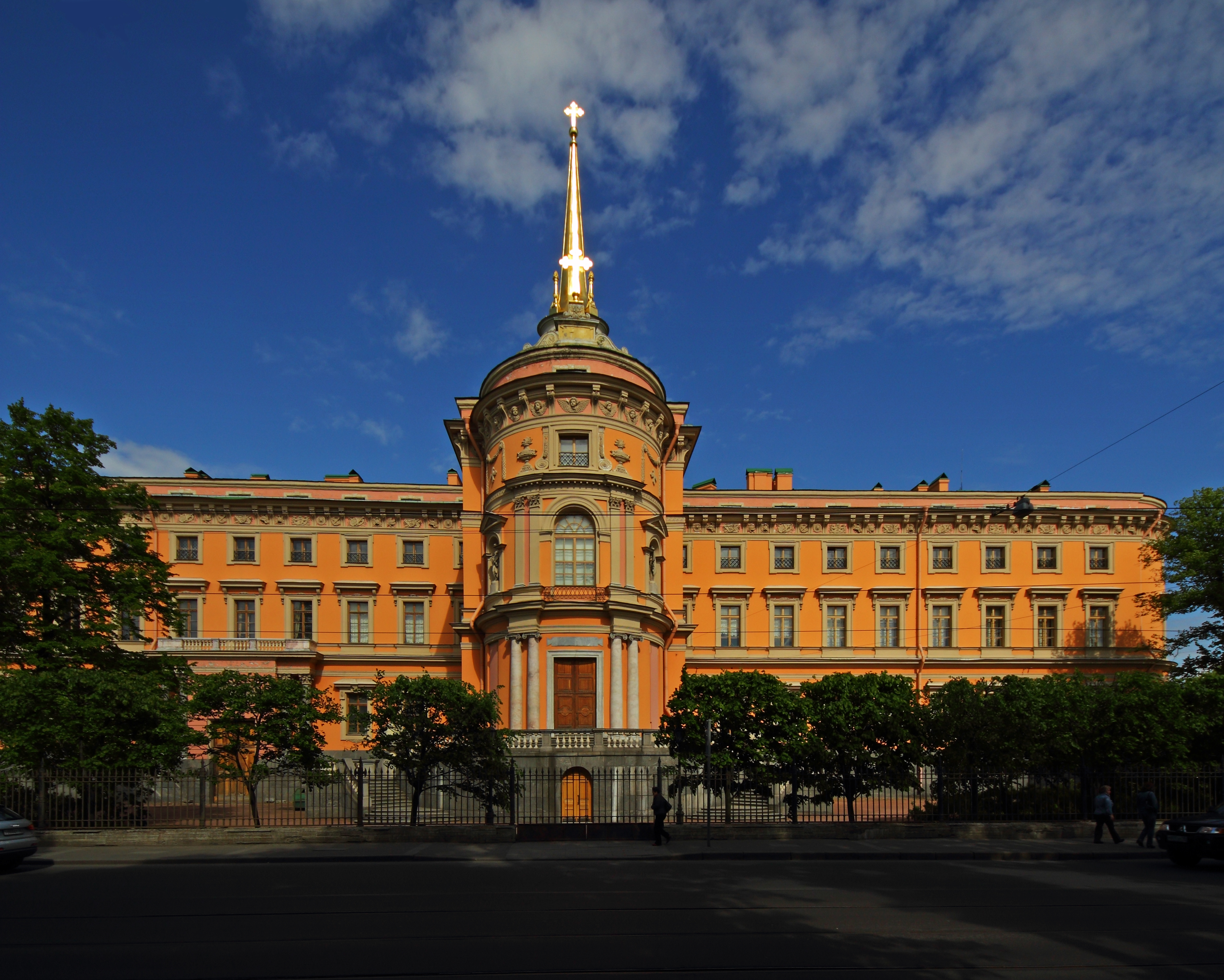 Saint Petersburg, Russia. St. Michael's Castle.